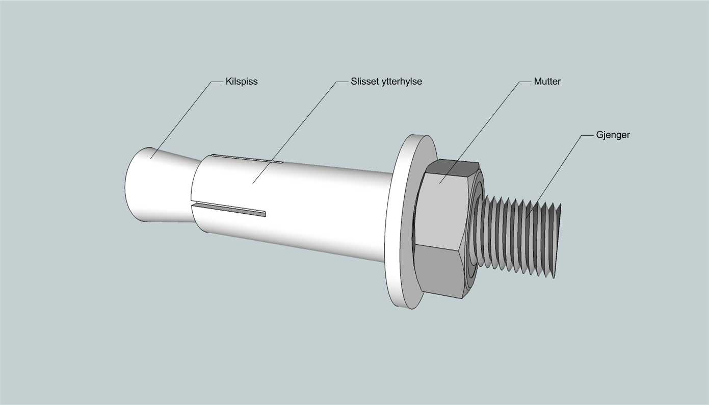 Ekpansjonsbolt med slisset ytterhylse